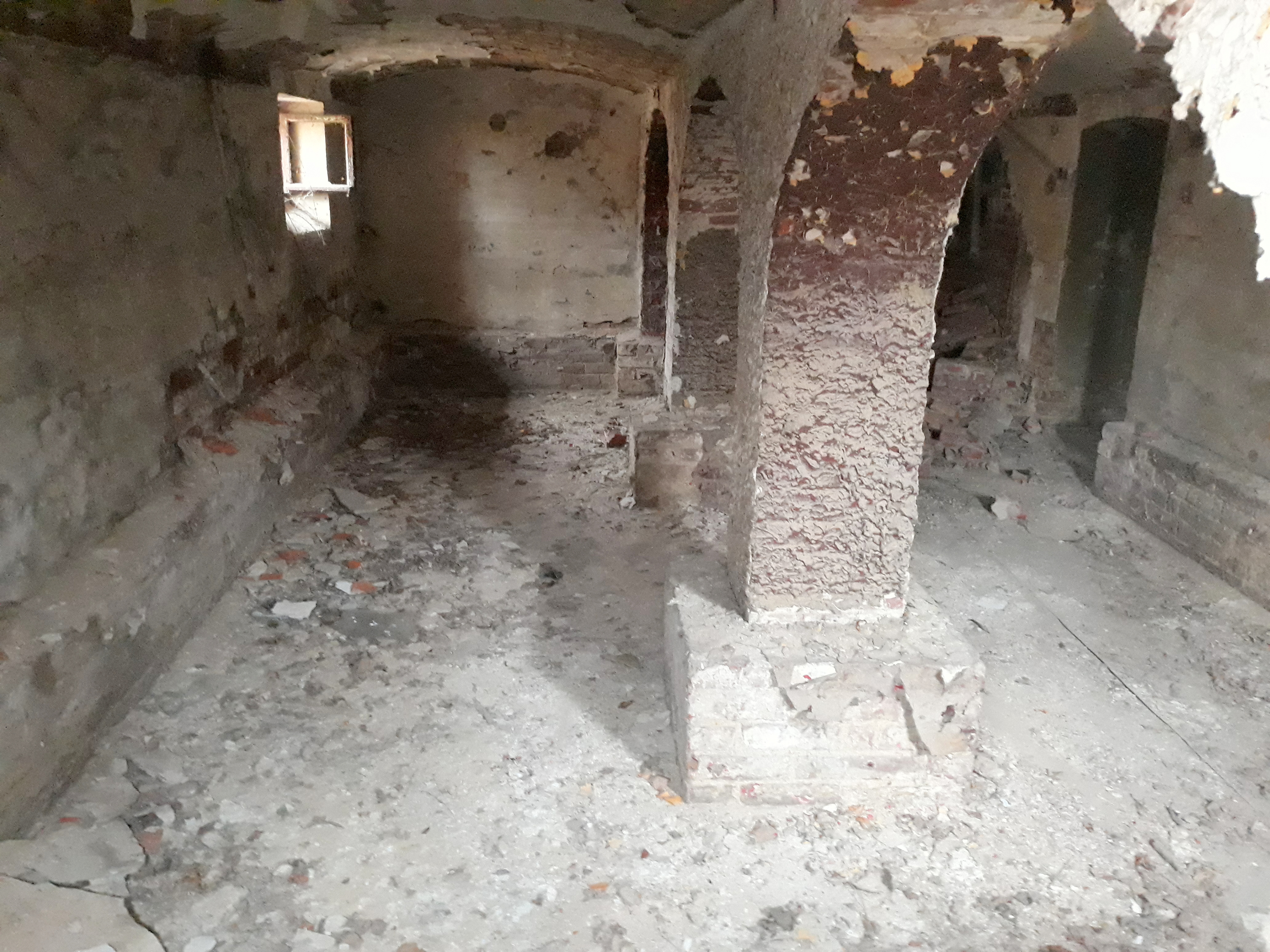 Border Protection Forces in Bliszczyce